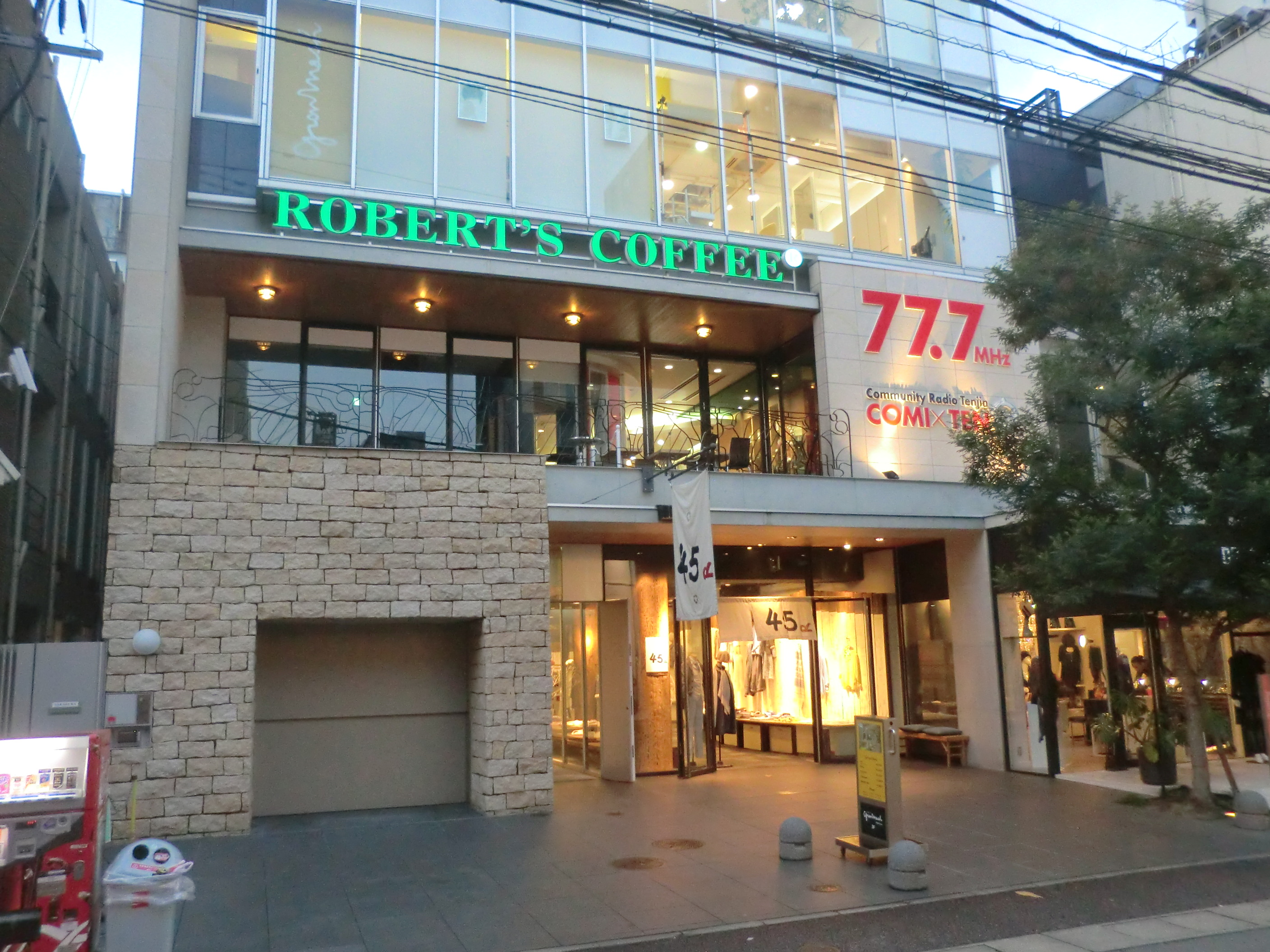 Robert's Coffee Fukuoka shop located in Daimyo area in Fukuoka,Japan.